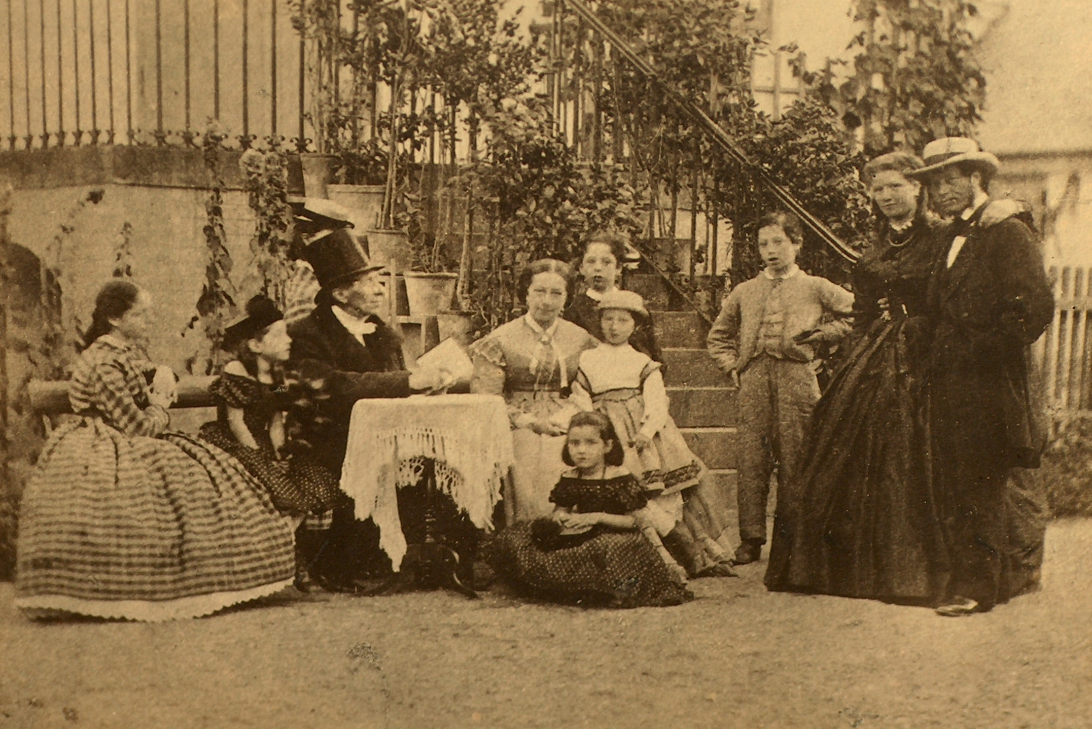 Hans Christian Andersen at "Rolighed".